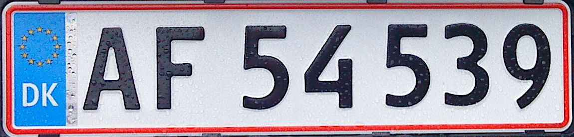 Danish europlates Date26 October 2009SourceOwn workAuthorDima1Permission (Reusing this file)